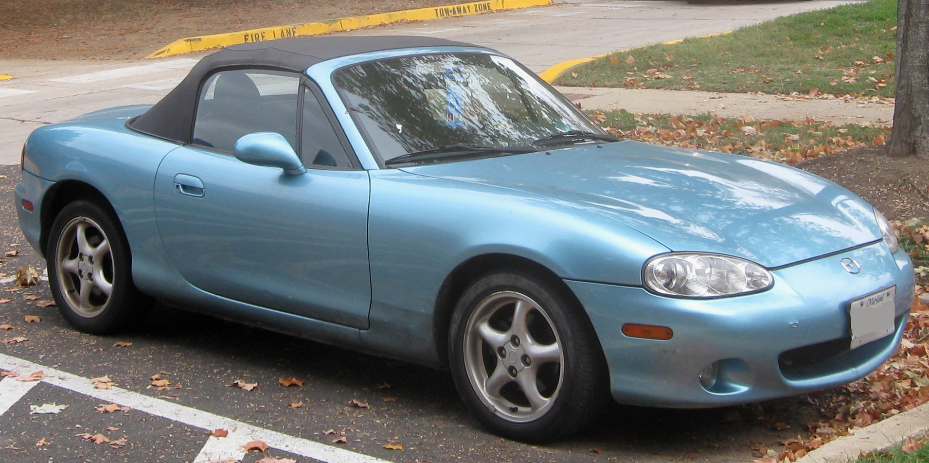 1999-2005 Mazda Miata photographed in College Park, Maryland, USA.